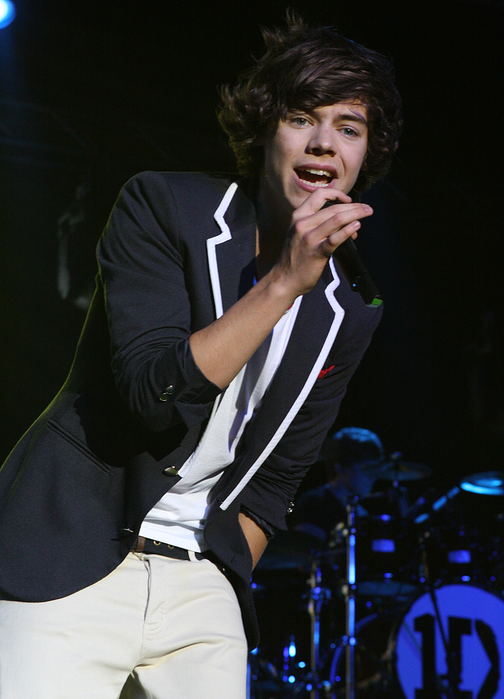 Harry Styles at the One Direction performs at Hordern Pavilion, Moore Park, Sydney, Australia 2012.